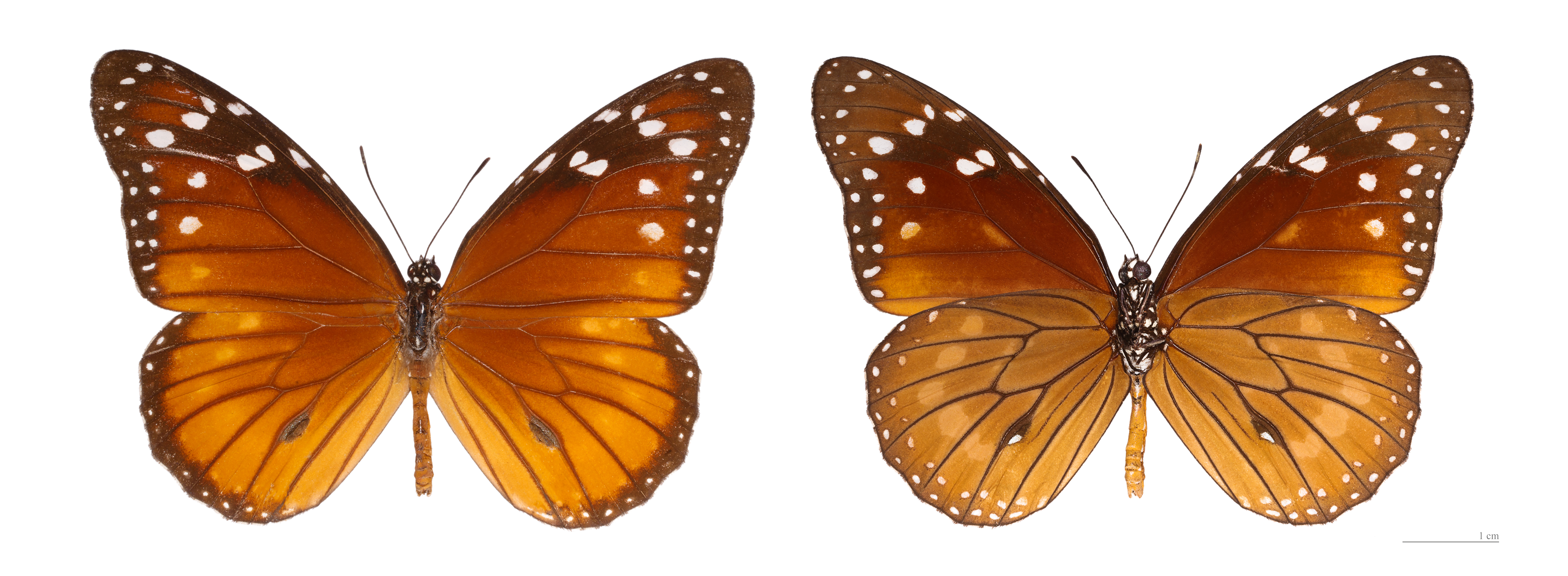 ♂ - Two views of same specimen Locality: Le Larivot, Cayenne, French Guianna.